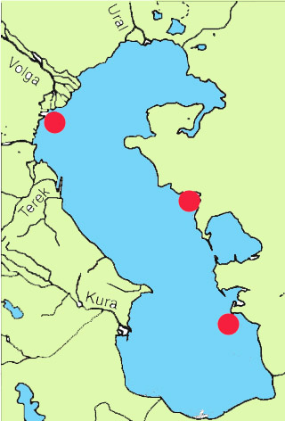 The range of Benthophilus casachicus